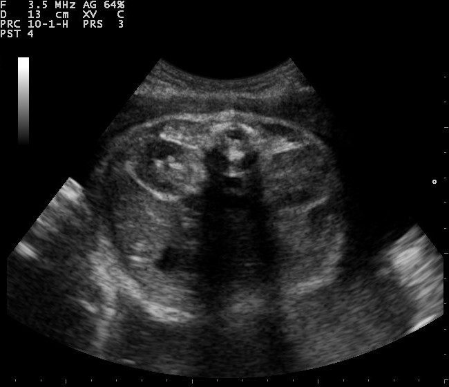 Ultrasound images of fetal kidneys